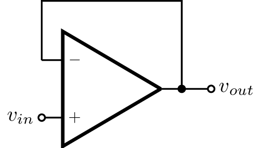 Circuit diagram of a voltage follower made with an op-amp